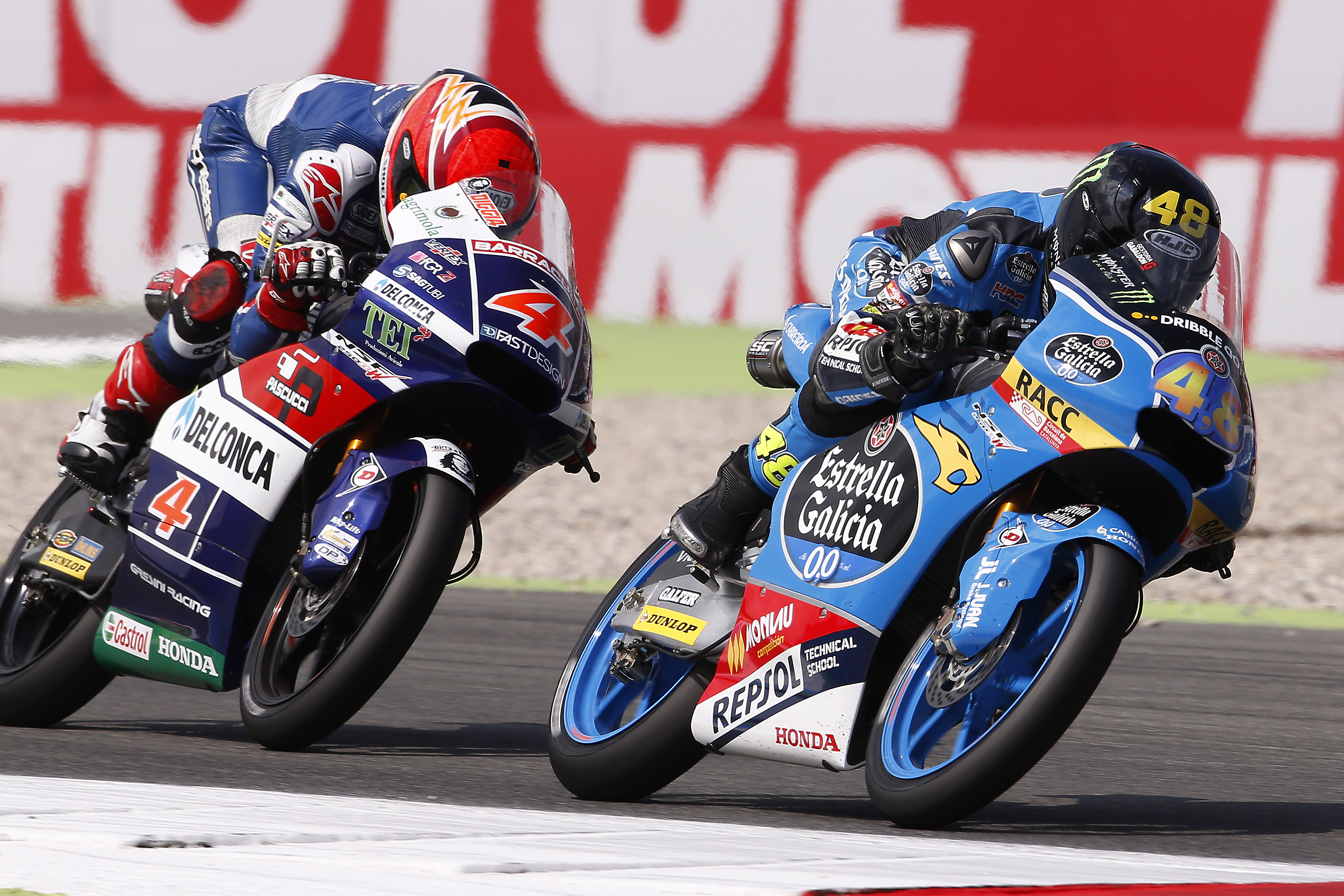 Fabio Di Giannantonio and Lorenzo Dalla Porta in 2016 Holland GP